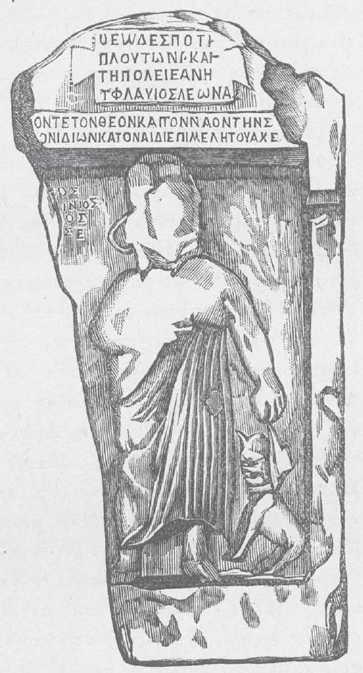 Relief with Pluto found in Aiani, Greece